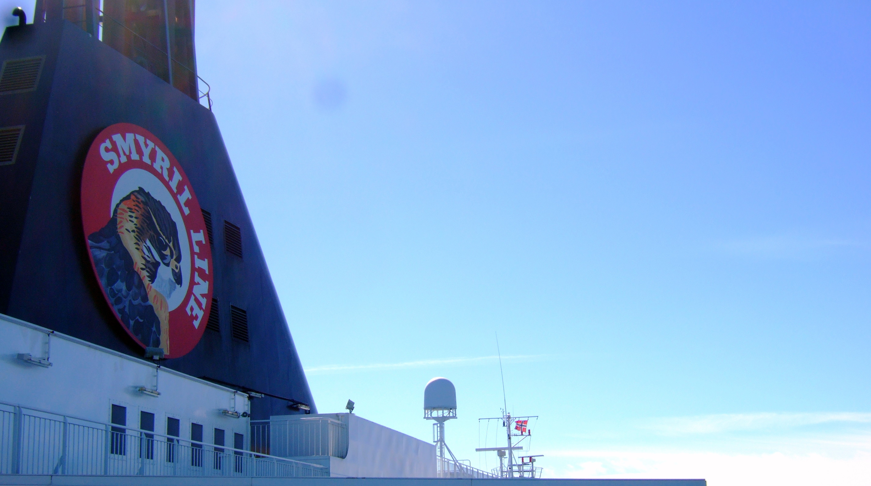 Own photo